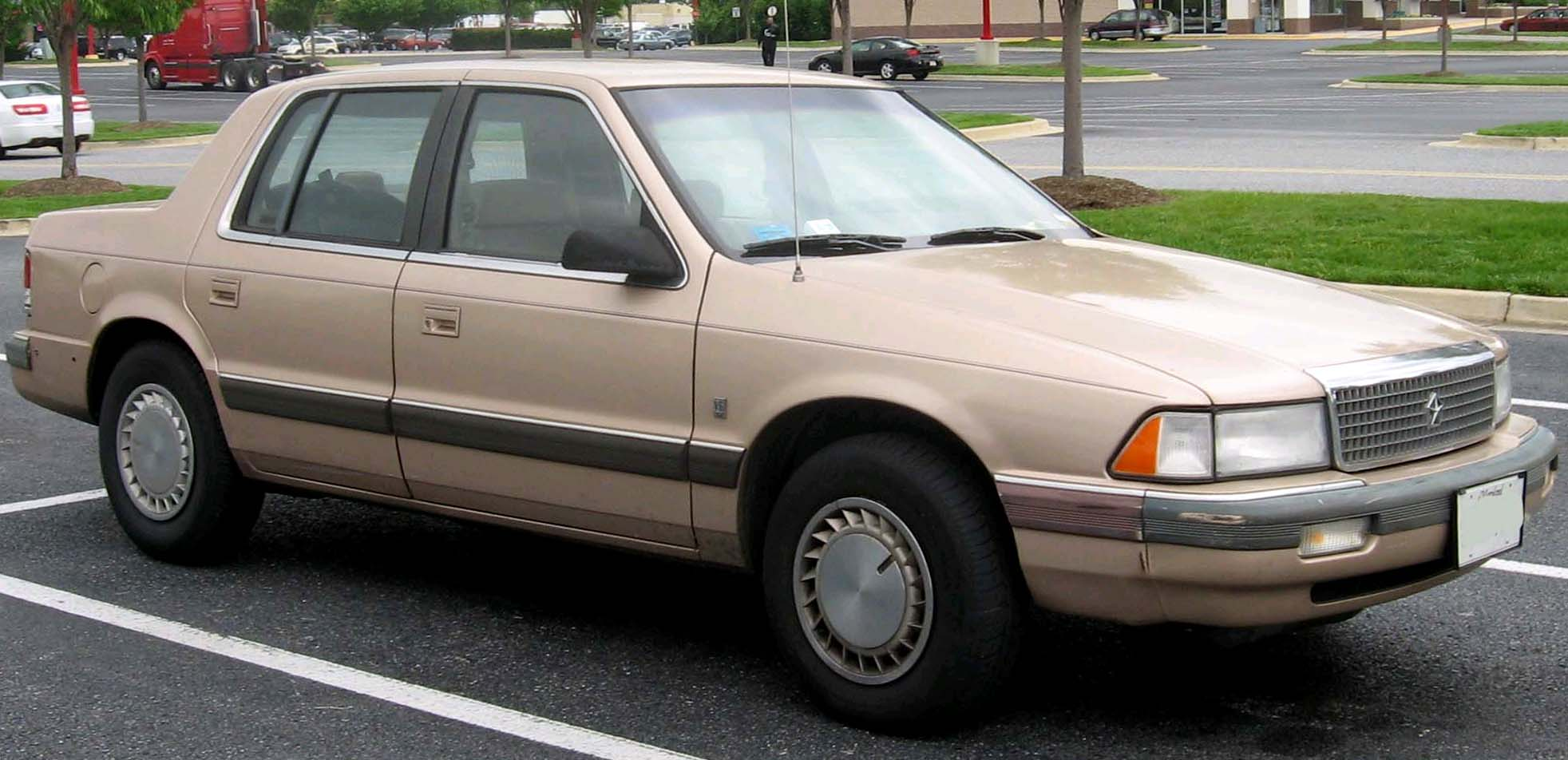 Plymouth Acclaim photographed in USA.